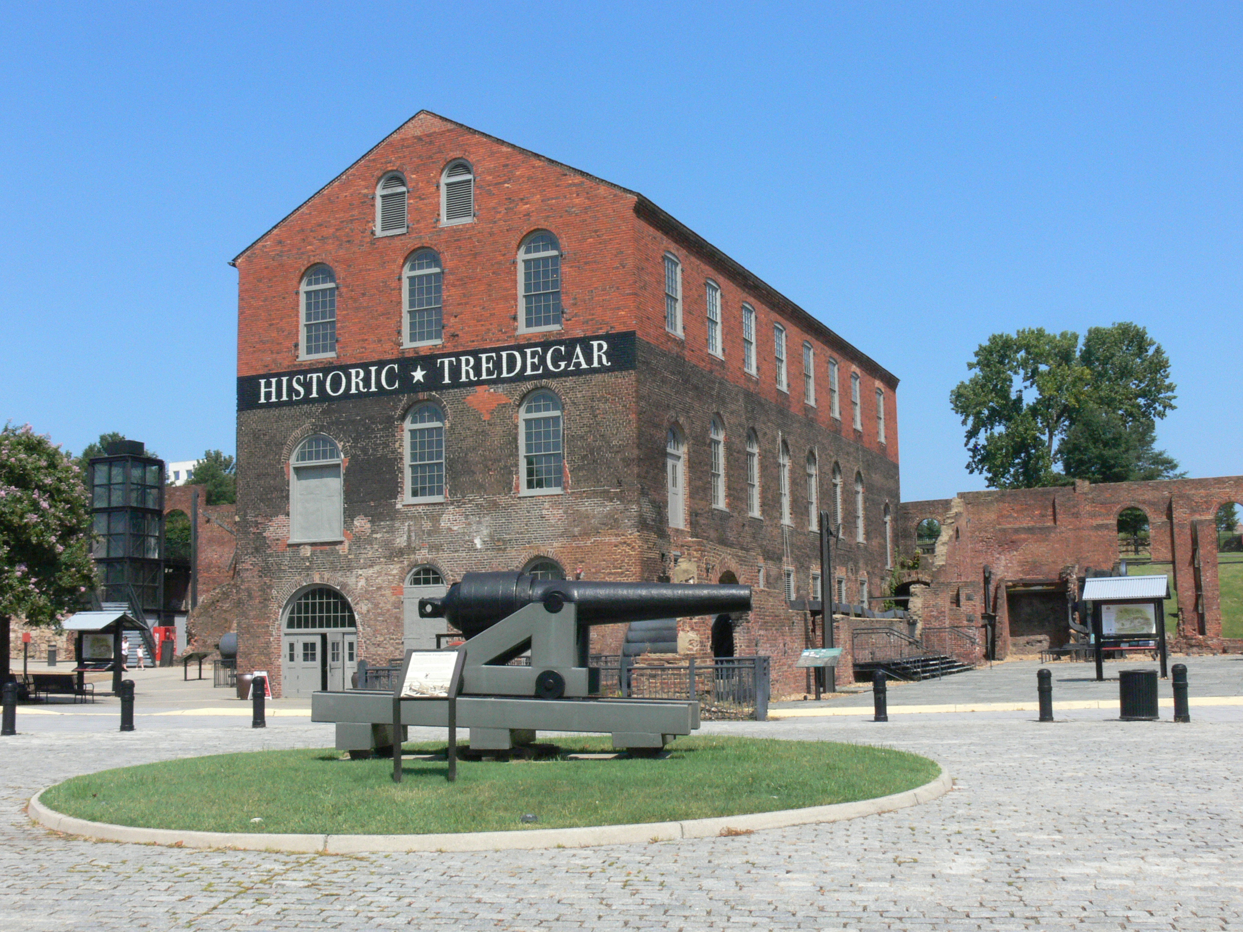 The Pattern Building (once the Crenshaw Woolen Mills) at Historic Tredegar, in Richmond, Virginia. Several additional buildings are not pictured. The building held the wooden patterns used to make molds into which the iron would be cast.